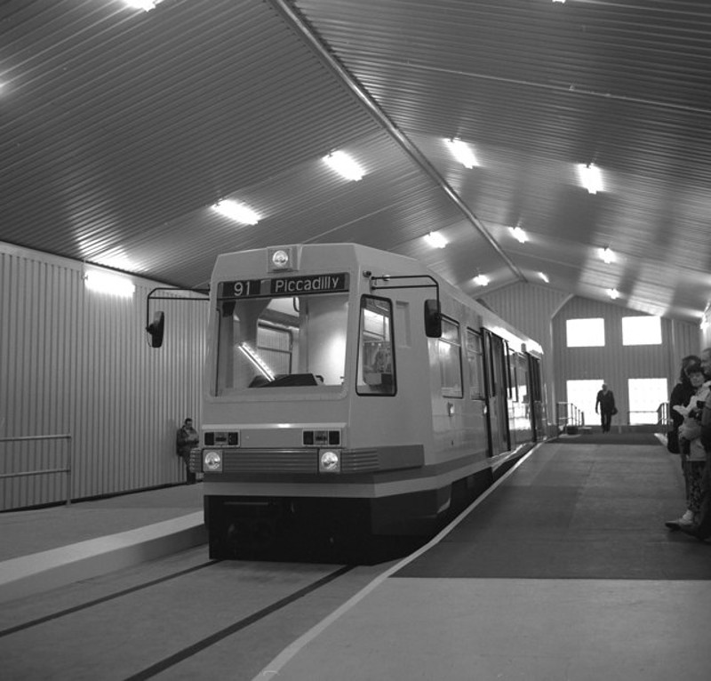 A taste of things to come, in Manchester. When construction of Manchaster's 'Metrolink' tramway was begun, it was decided to put a mock-up on show to the public so they could see what the trams would look like. This was done in a railway arch off North Western street. When the real thing appeared, it showed several differences from the mock-up.